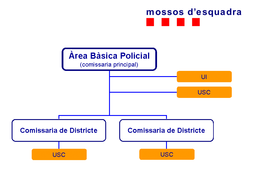 Structure of a Basic Police Department from Police of the Generalitat - Mossos d'Esquadra with 2 Districts.